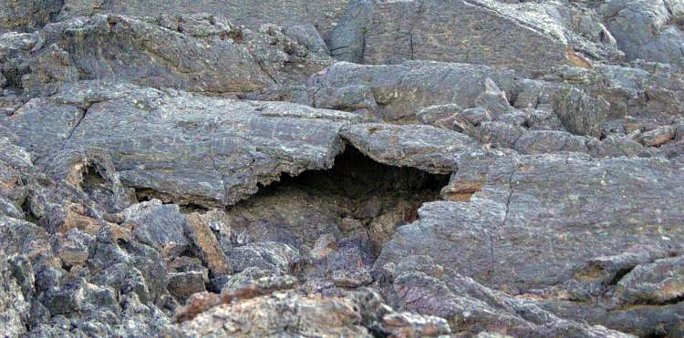 Lava tube at Craters of the Moon National Monument